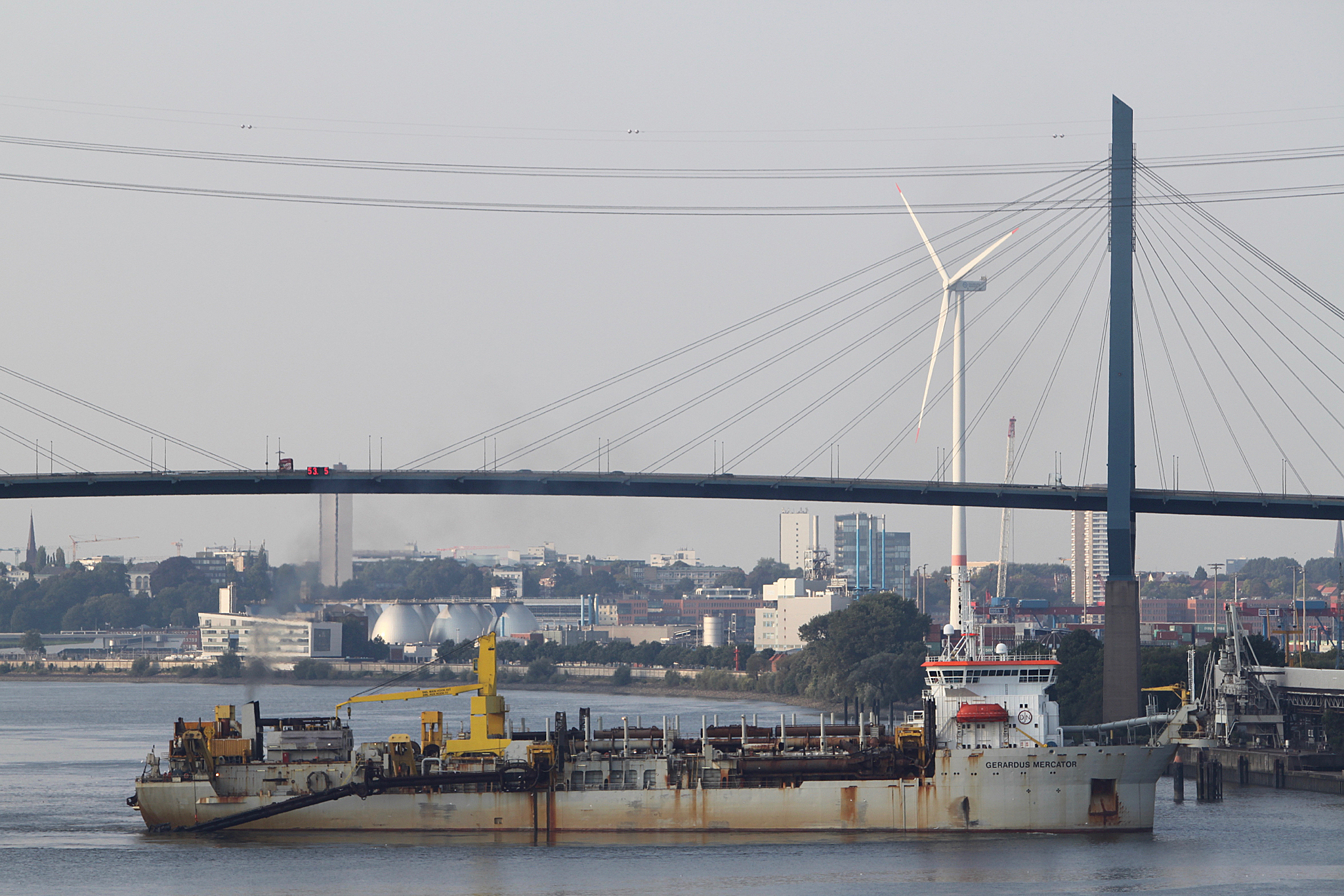 "Gerardus Mercator" in the port of Hamburg.